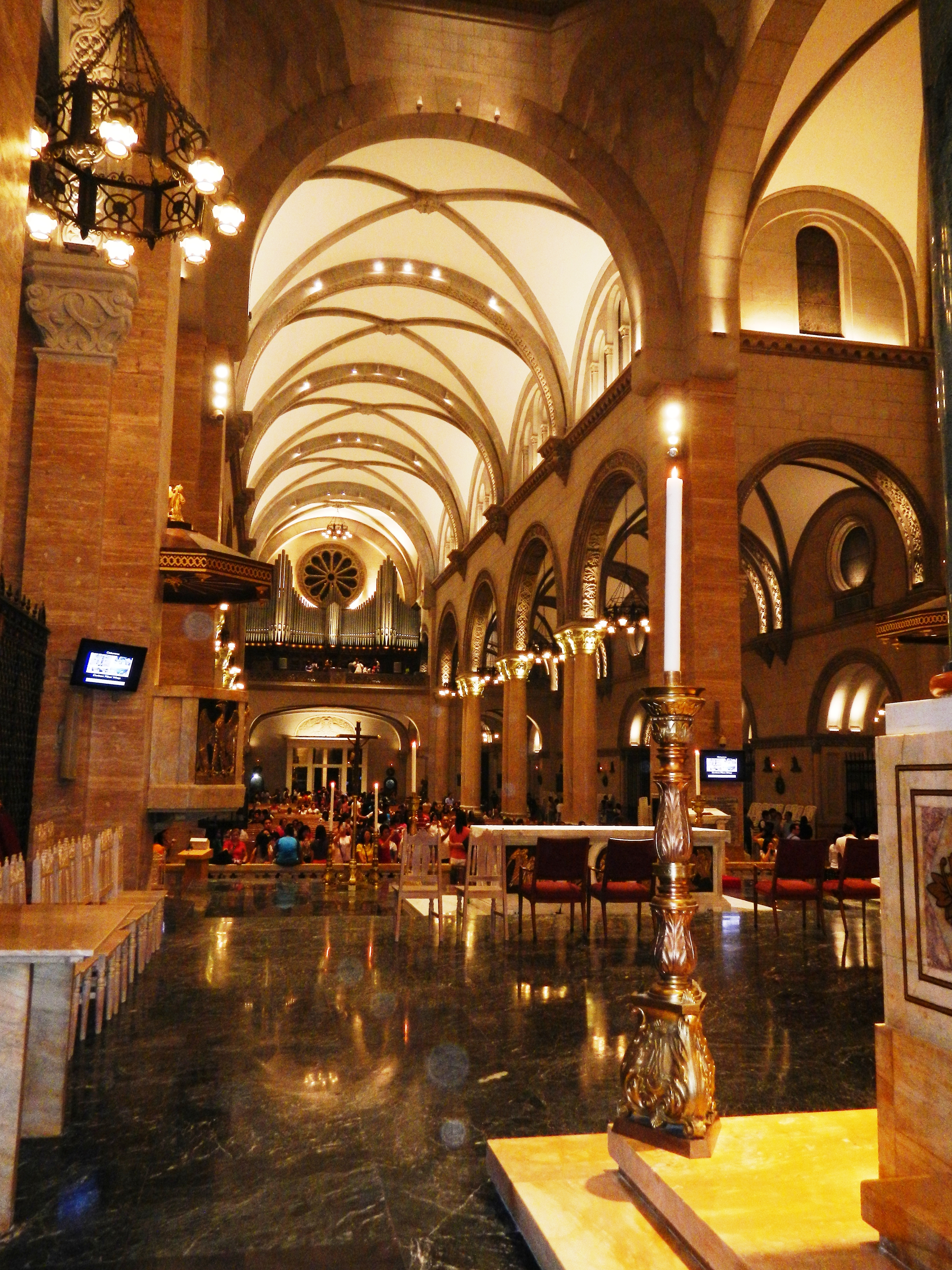 Manila Cathedral reopens after two years of reconstruction work (Manila Cathedral-Basilica Re-Opening (April 9, 2014 Eucharist after Restoration and Retrofitting) Manila Cathedral (Retrofitting Restoration of buildings).